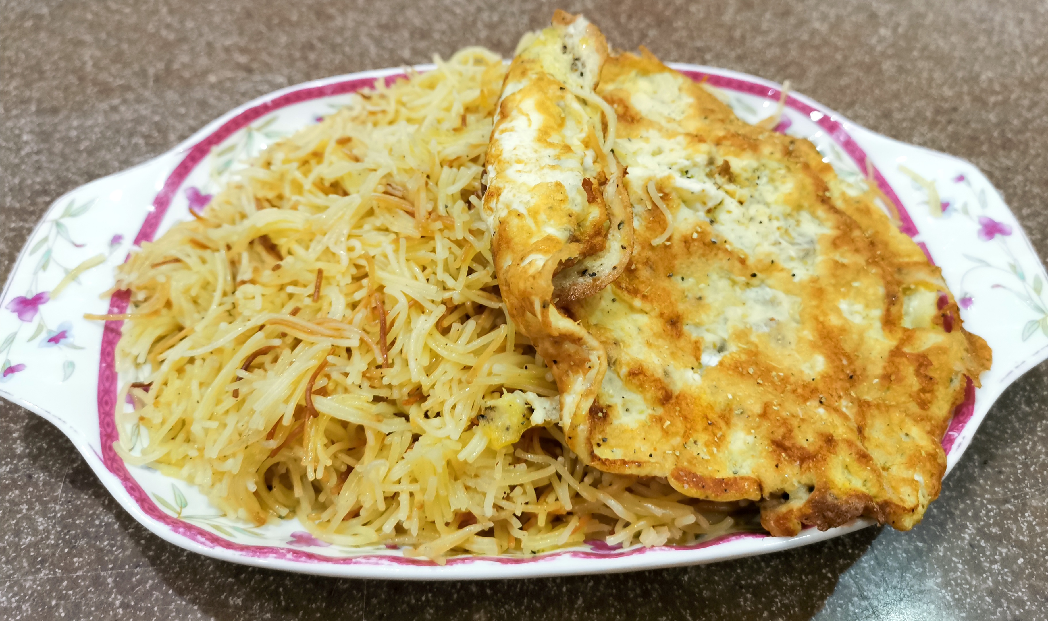 Balaleet, a traditional home-made dish popular in the Persian Gulf, consisting of sweet vermicelli served with overlying egg omelettes for a sweet and savoury taste.